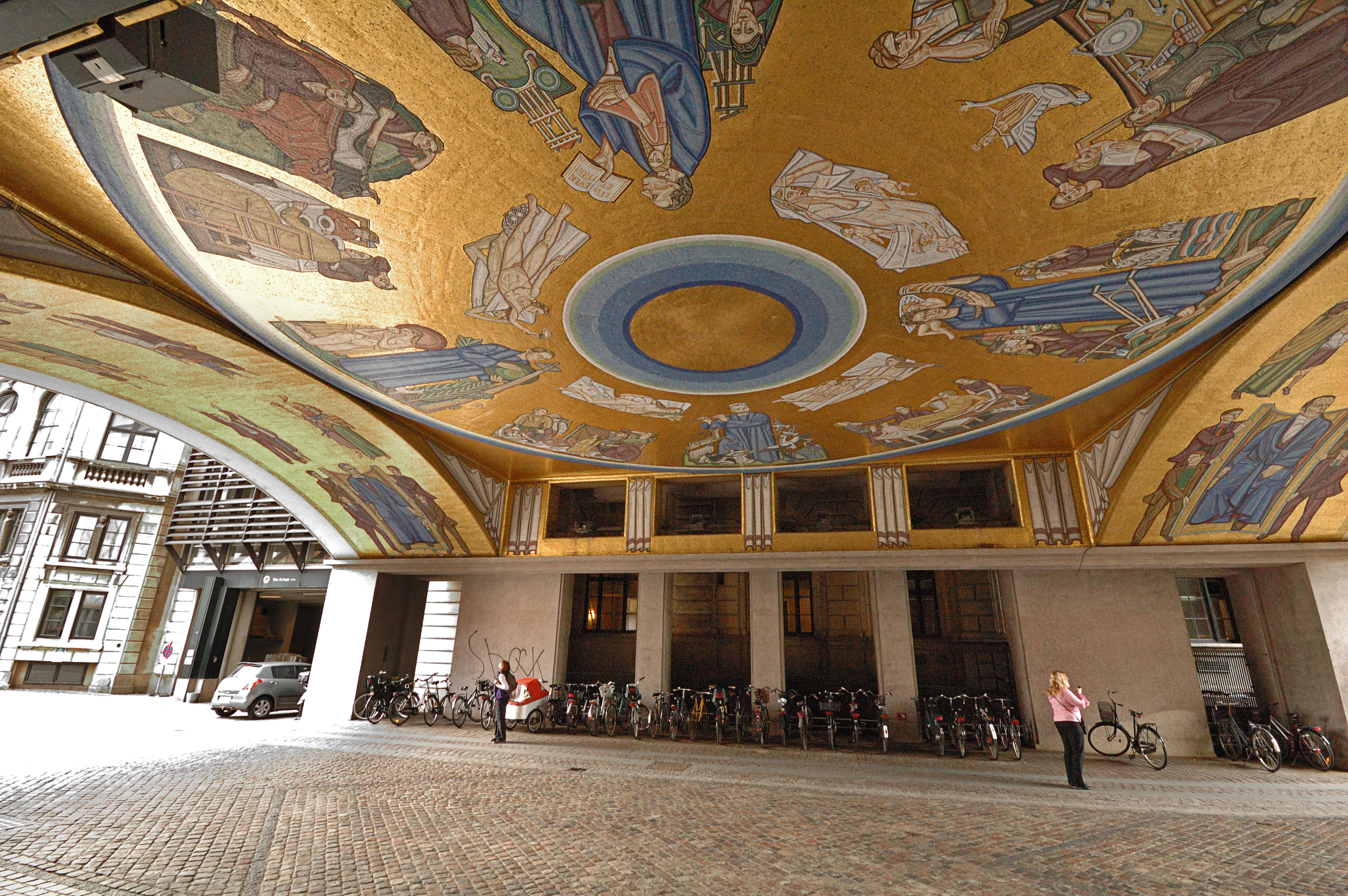 Ejnar Nielsen's mosaic in the arched passage under the stage tower of Stærekassen ib Copenhagen, Denmark